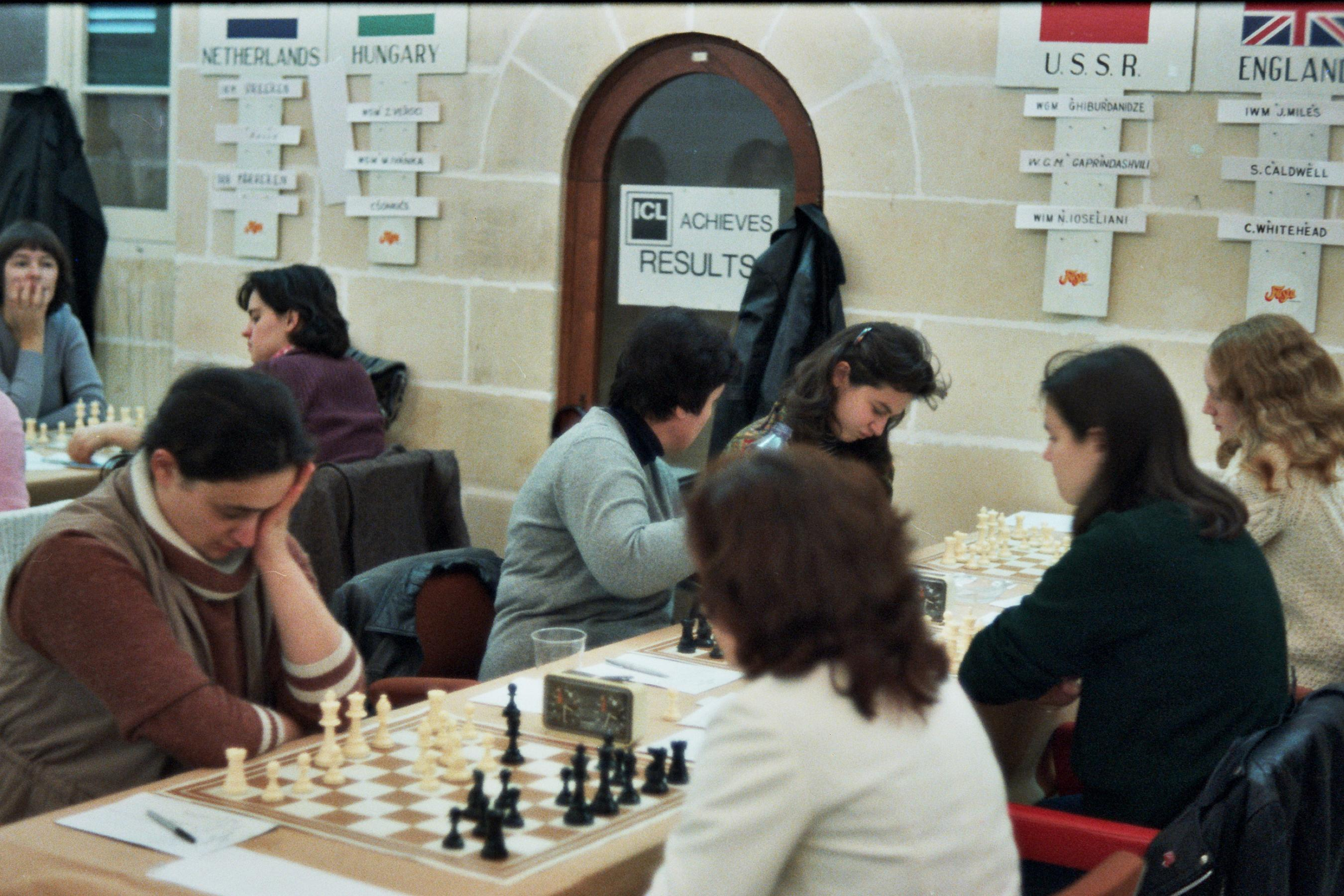 USR, Olympic champion of women, Chess Olympiad 1980 in Valetta on Malta, Photographer Gerhard Hund.